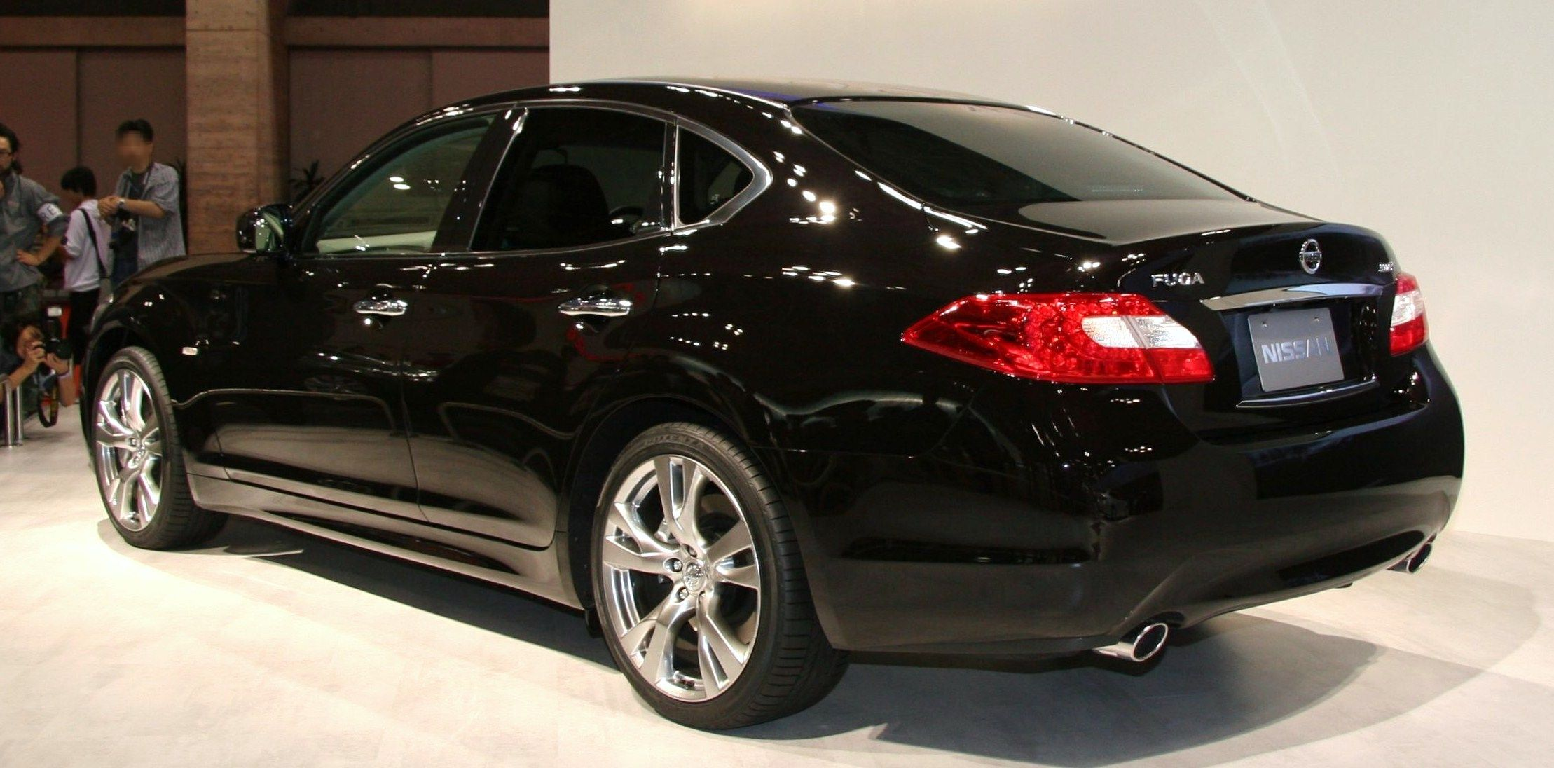 NISSAN FUGA